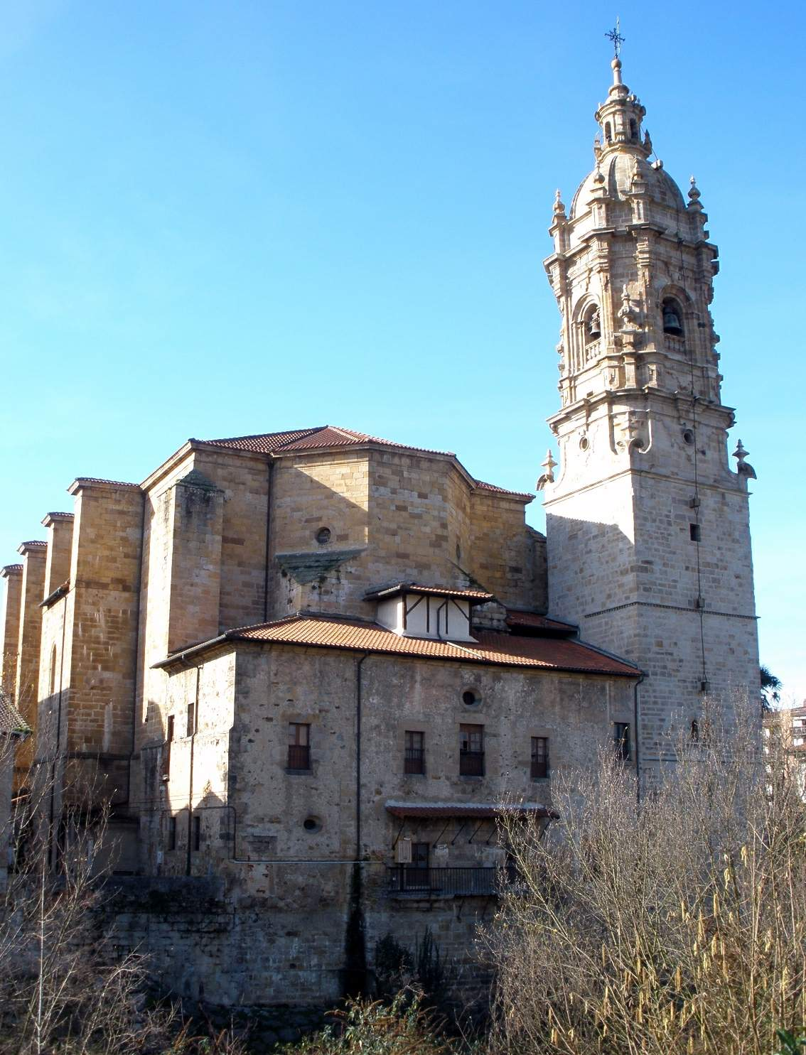 Iglesia de Santa María de la Asunción, en Amorebieta-Etxano (Vizcaya)